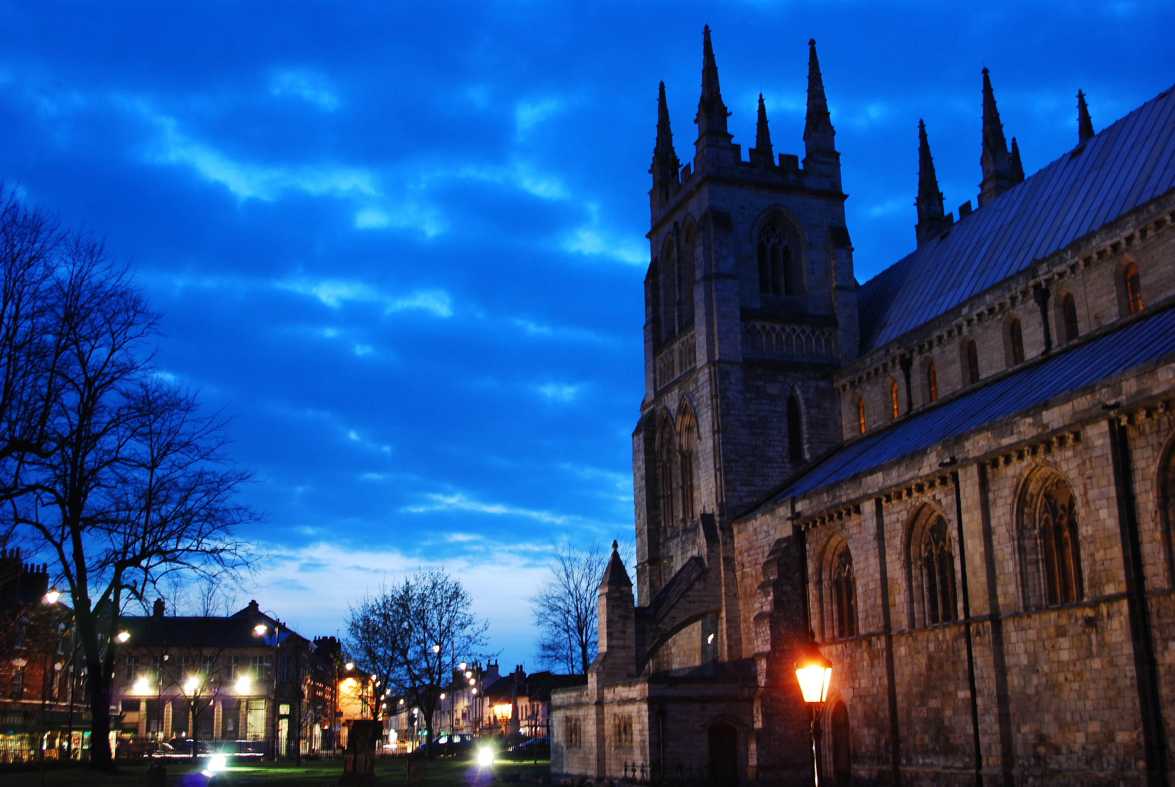 Town of Selby (Selby Abbey, North Yorkshire, England)